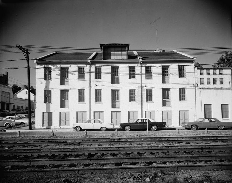 View of the Jefferson Landing Building, Jefferson City, Cole County, Missouri, by an unknown photographer working for the Historic American Engineering Record. The Jefferson Landing Building is located on the Missouri River close by the Capitol building in Jefferson City. The first section of the building was erected for Richard Shackleford in 1834, then subsequent to 1836 two later additions were constructed for new owner Harry Colgan. The building had many uses through the years, including as a hotel, warehouse, store, and offices for the wharfmaster. The building later became known as the Lohman's Landing Building after Charles F. Lohman acquired it in 1852. Image is part of the Historic American Engineering Record, Library of Congress, Prints and Photographs Division, Washington, D.C.